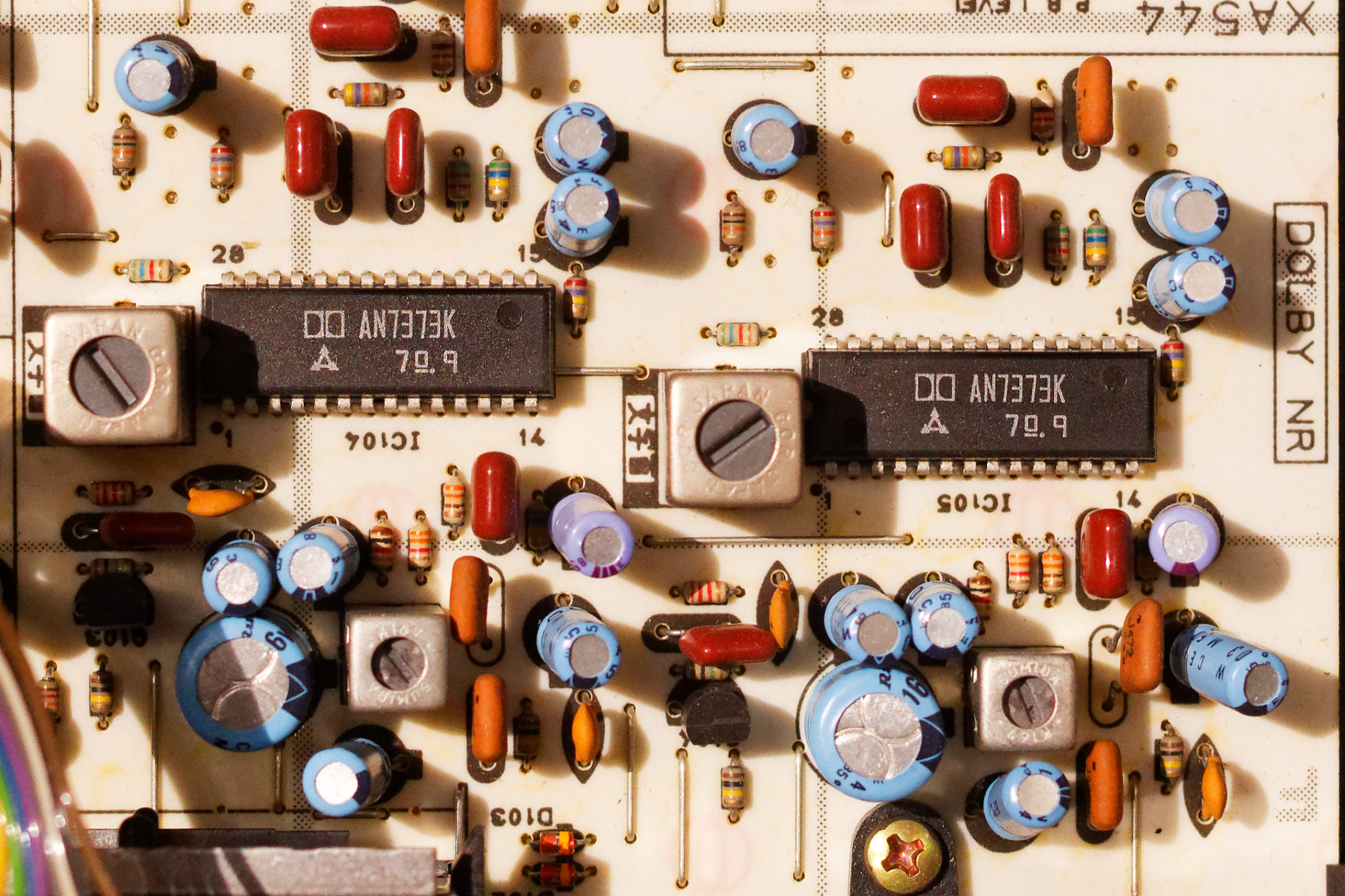 Yamaha K-340 cassette deck (Euro market model. IMO it's the same as K-400 in North America). Dolby subcircuit. Yamaha has used all sorts of Dolby ICs - Signetics/Philips, Hitachi, but mostly Sony. This is a rare example of a Panasonic Dolby chip in a Yamaha. It's really odd why they shuffled all these chips almost simultaneously, instead of locking on one chosen supplier. At least in case of the Panasonic AN7373 the answer is quite obvious. This wasn't a popular chip, it was discontinued soon, it's not listed on the usual datasheet directory sites... dead end. So they did right to drop it... but why did they use it, in first place?